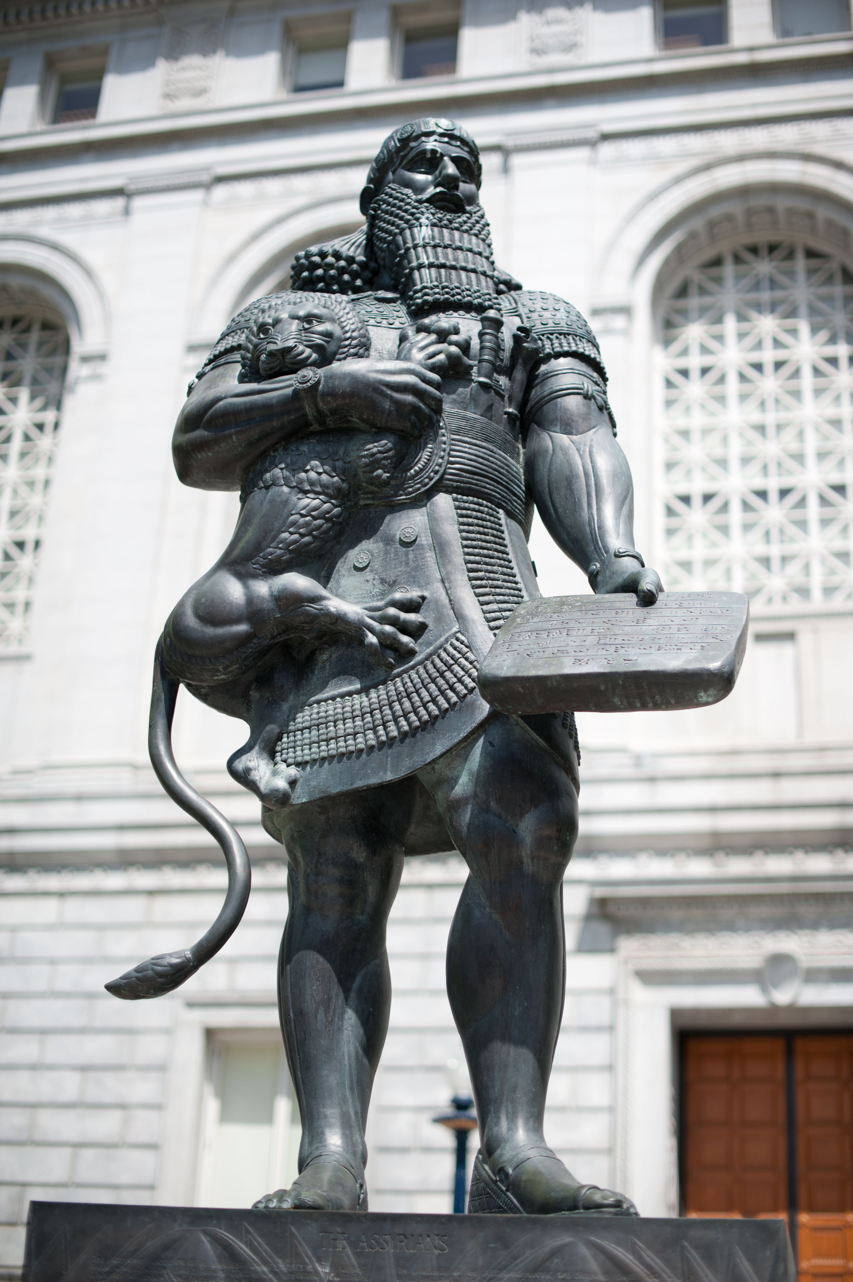 Ashurbanipal, (sculpture). San Francisco Civic Center Historic District